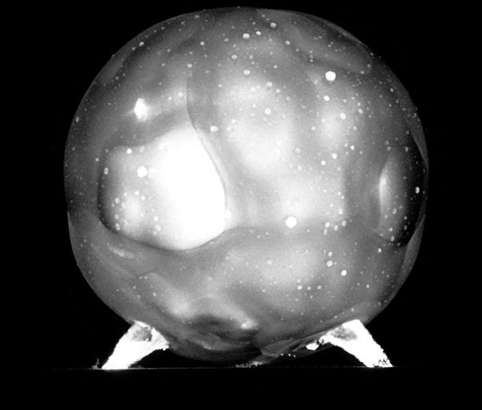 The Rapatronic camera is a high-speed camera with an exposure time as brief as 10 nanoseconds. It was developed by Harold Edgerton in the 1940s. This image is part of a sequence of photographs taken within milliseconds of ignition of an nuclear explosive.